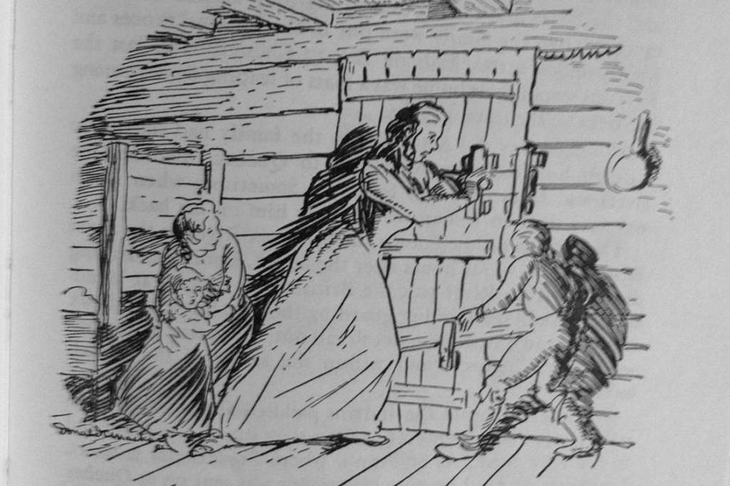 Raid On Lunenburg By Donald Mackay1955